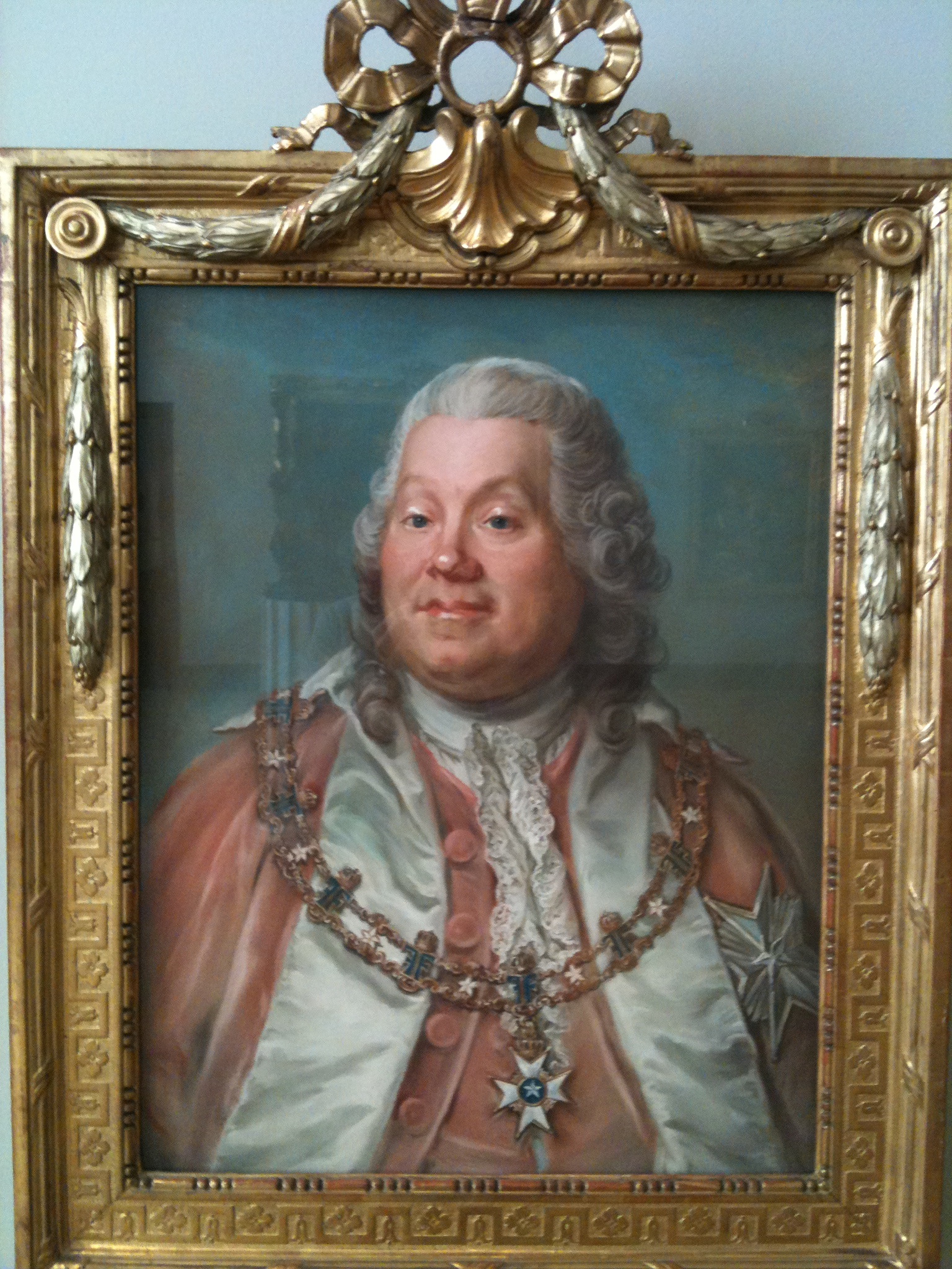 Chancellor of the Court Nils Barck (1713-1782)label QS:Len,"Chancellor of the Court Nils Barck (1713-1782)" label QS:Lsv,"Hovkansler Nils Barck (1713-1782)"